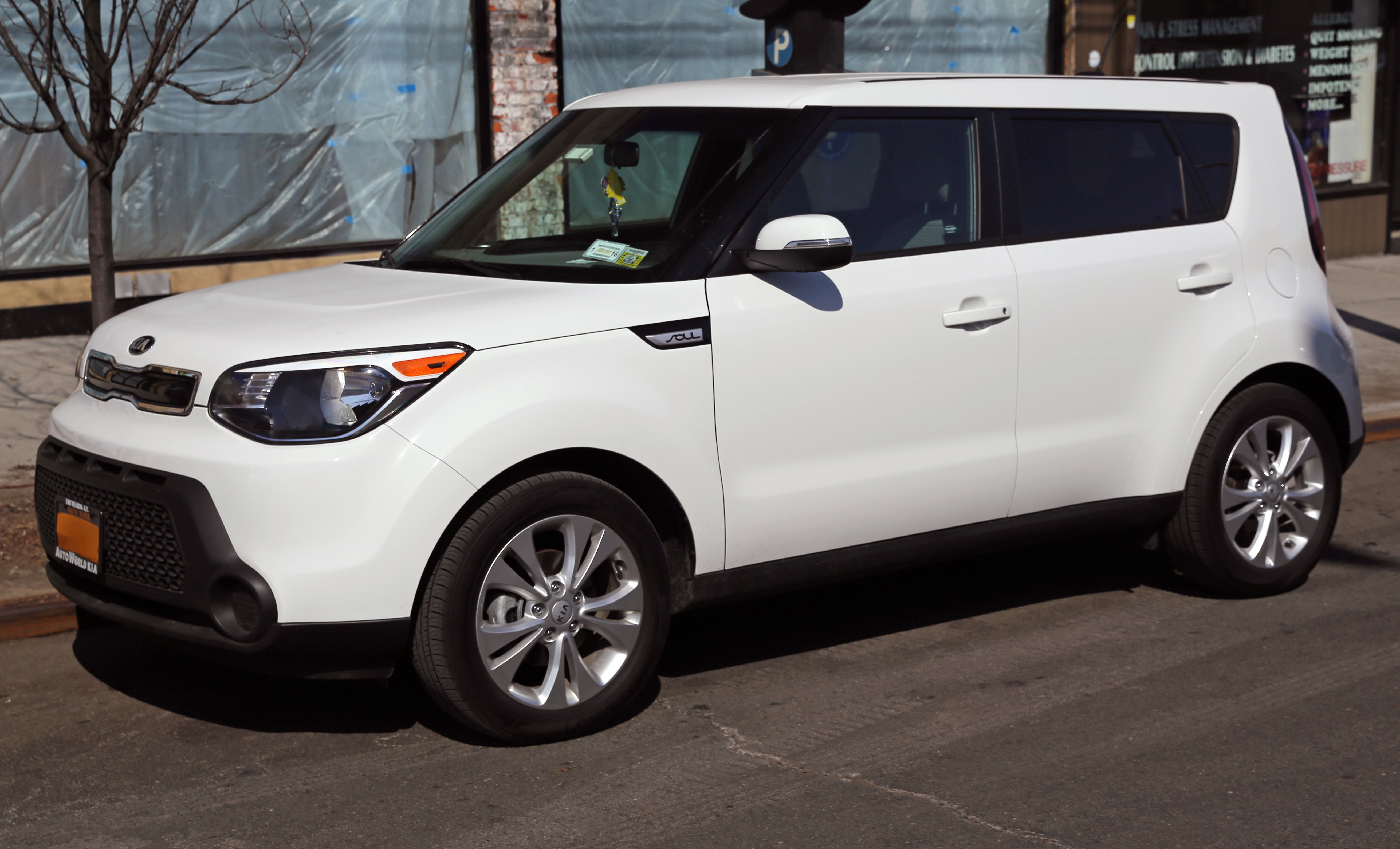 A 2014 Kia Soul Plus.